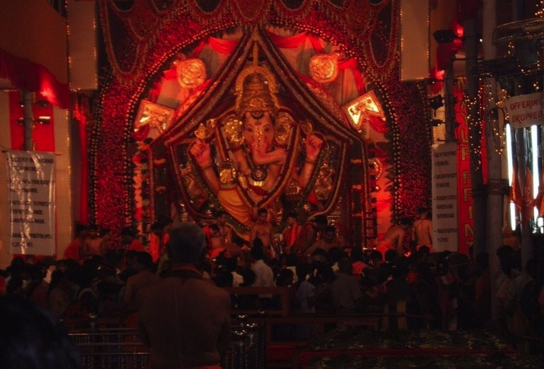 Photograph of Ganesh Chaturthi festival in Mumbai, 2004.